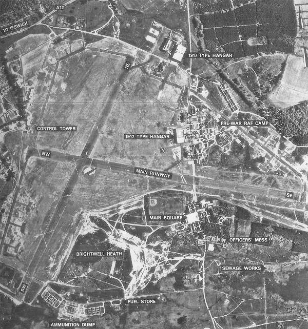 Aerial photograph of Martlesham Heath Airfield, England.